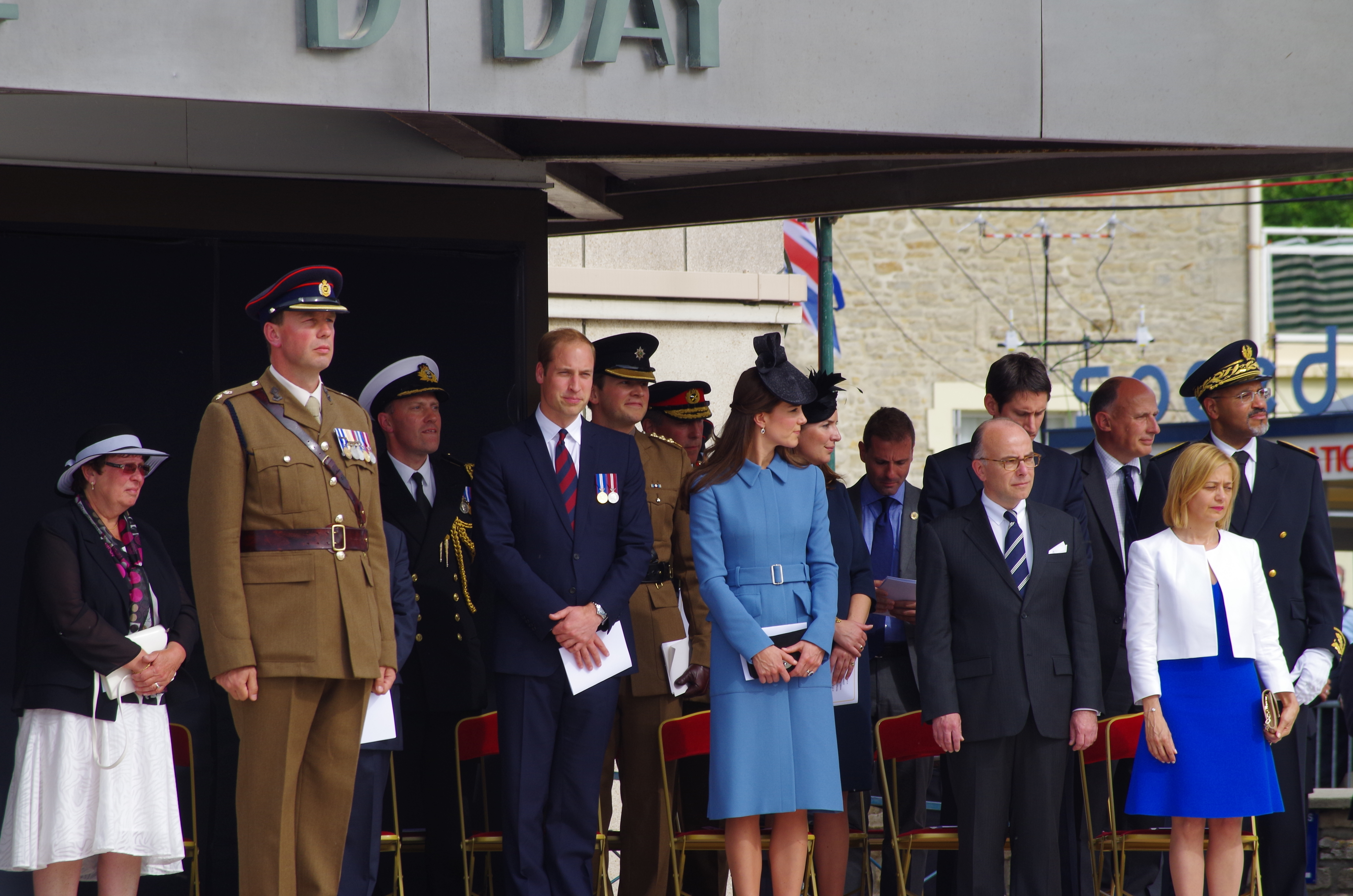 The 70th Anniversary of D-Day commemorated in Arromanches. The Service was attended by TRH The Duke and Duchess of Cambridge